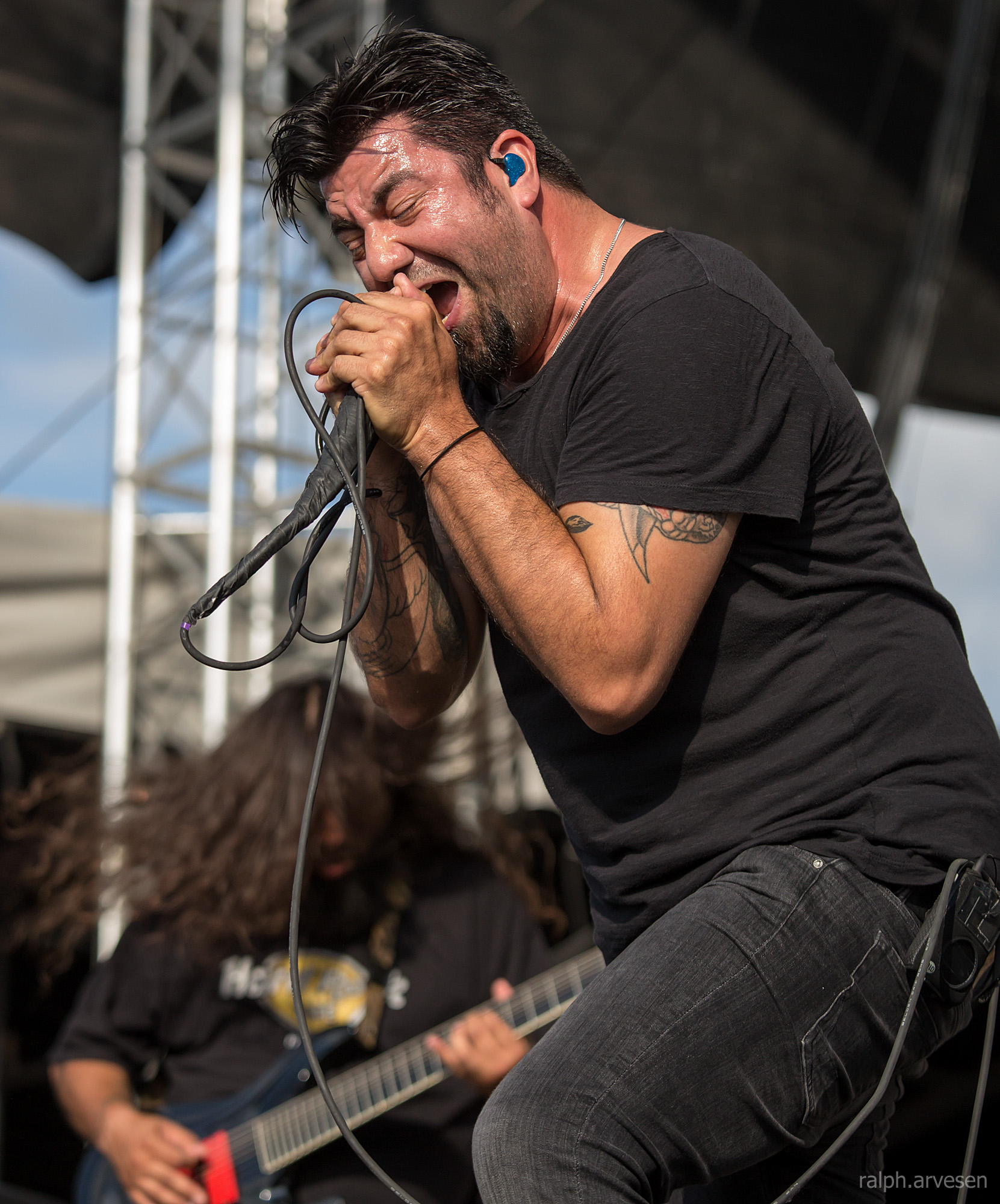 Chino Moreno performing with Deftones at the River City Rockfest at the AT&T Center in San Antonio, Texas on May 24, 2014.